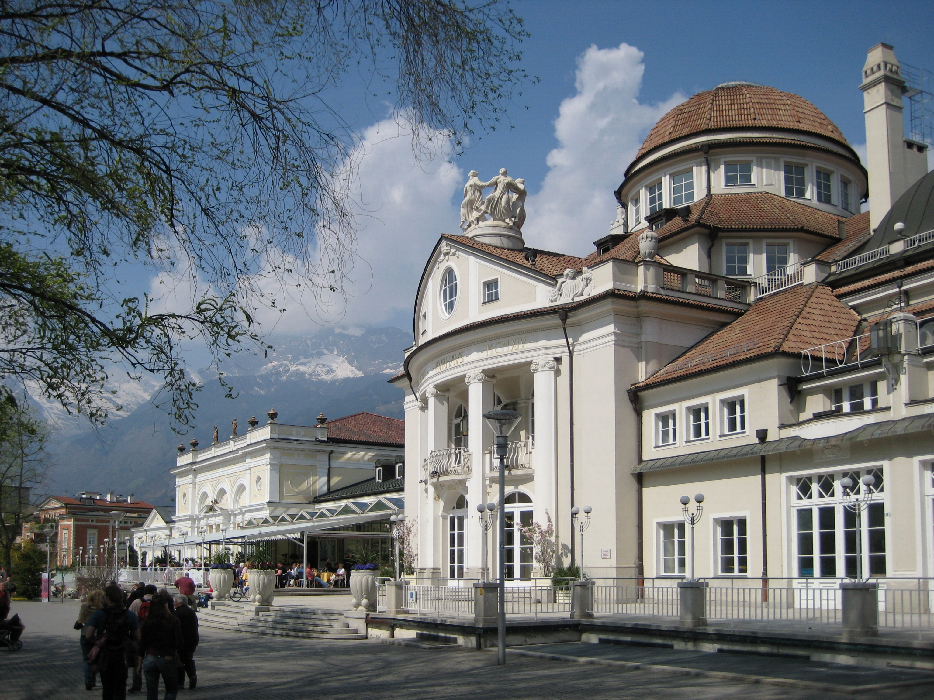 Merano